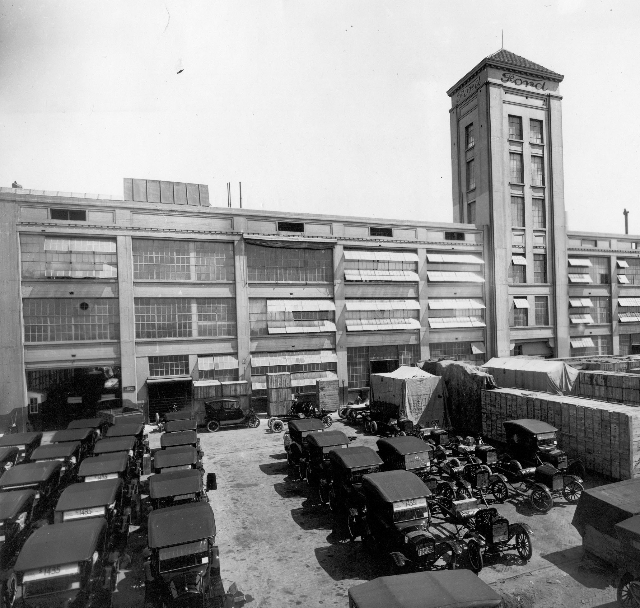 The Ford Motor assembly plant in La Boca, Buenos Aires. This was the first plant of the US company in Argentina, after arriving to the country in 1913. The production line then moved to Gral. Pacheco in Greater Buenos Aires, where still stands. (This photo may be a few years later than claimed. A close look at the cars shows their radiators are 1924-1925 style, with the apron at the bottom of the shell.)